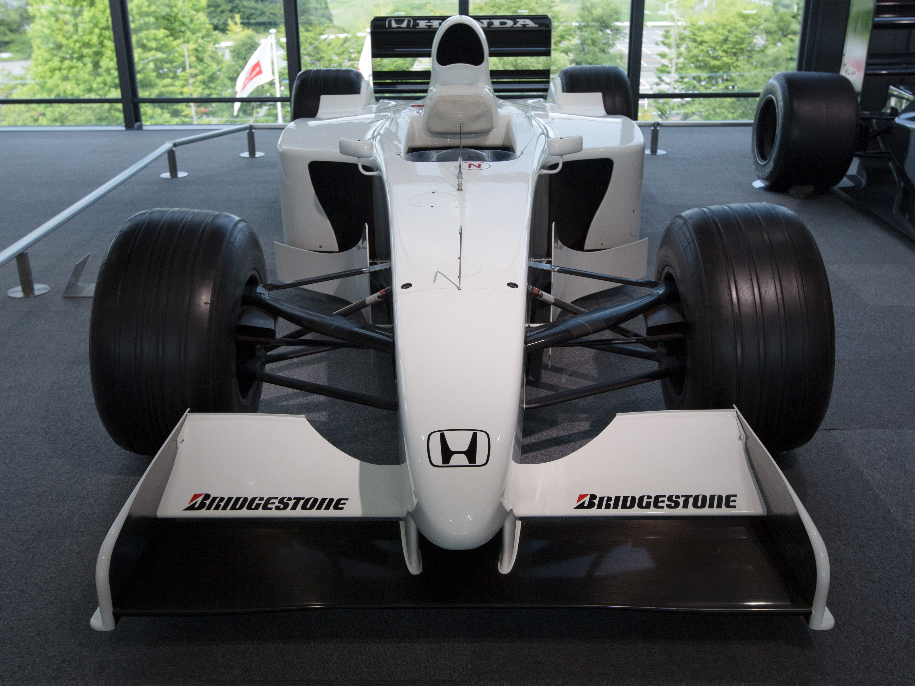 1999 Honda RA099